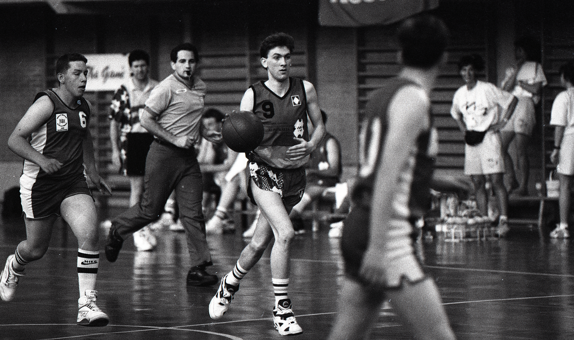 Victorian Rodney Meddings (#9) brings the ball into the front court for the Australian Boomerangs in the game against Great Britain at the 1992 Madrid Paralympic Games for Persons with Mental Handicap. The Boomerangs, Australia's national men's team for players with an intellectual disability, defeated GB 65-20, but finished seventh in the tournament.